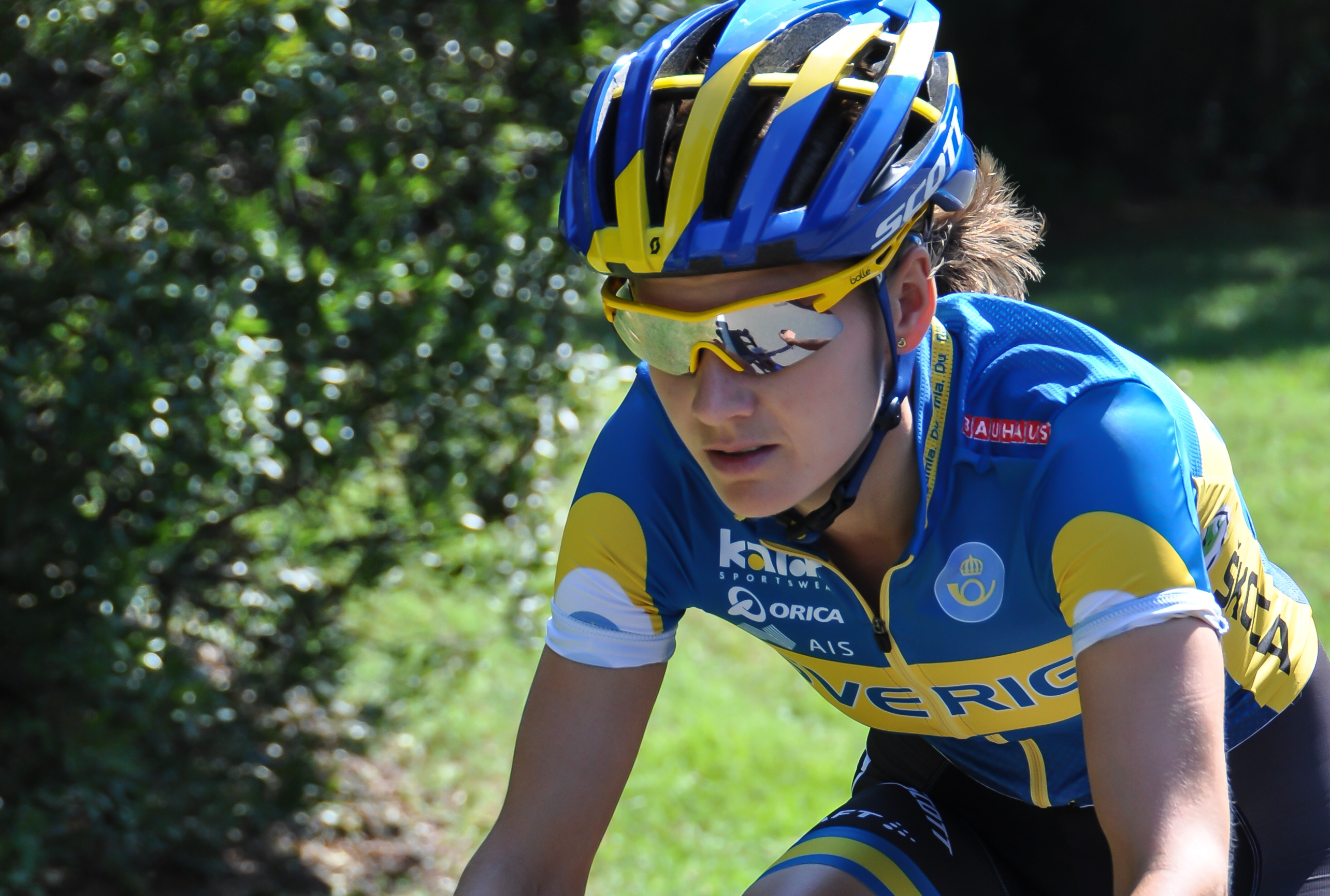 Emma Johansson of Sweden training in Richmond, Virginia, the site of the 2015 UCI Road World Championships.